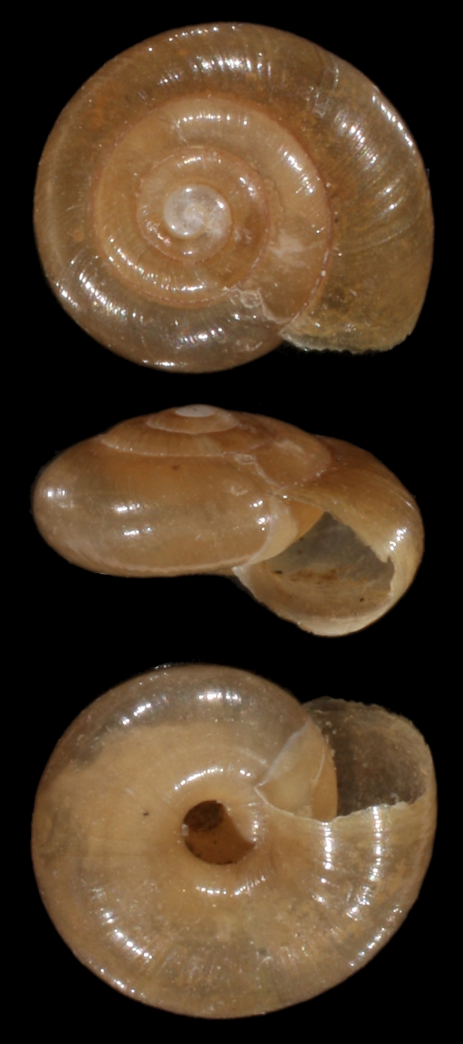 Photo of the shell of Zonitoides nitidus. Locality: Germany: Nordrhein-Westfalen, near Telgte. Date: before 1986.